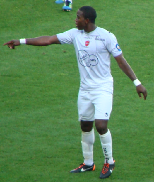 Carlos Sanchez Moreno (Valenciennes FC)